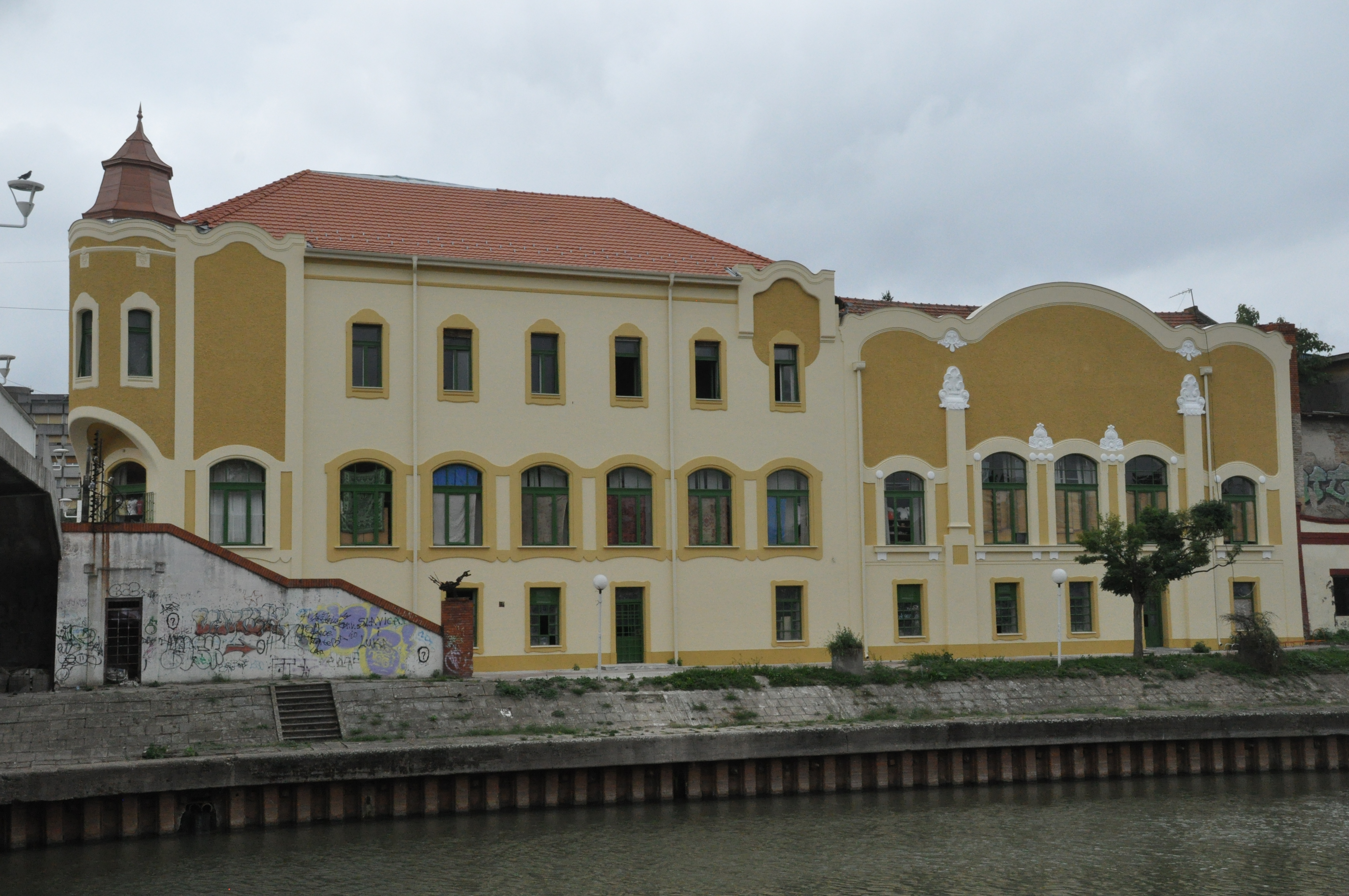 Dunđerski Palace in Zrenjanin